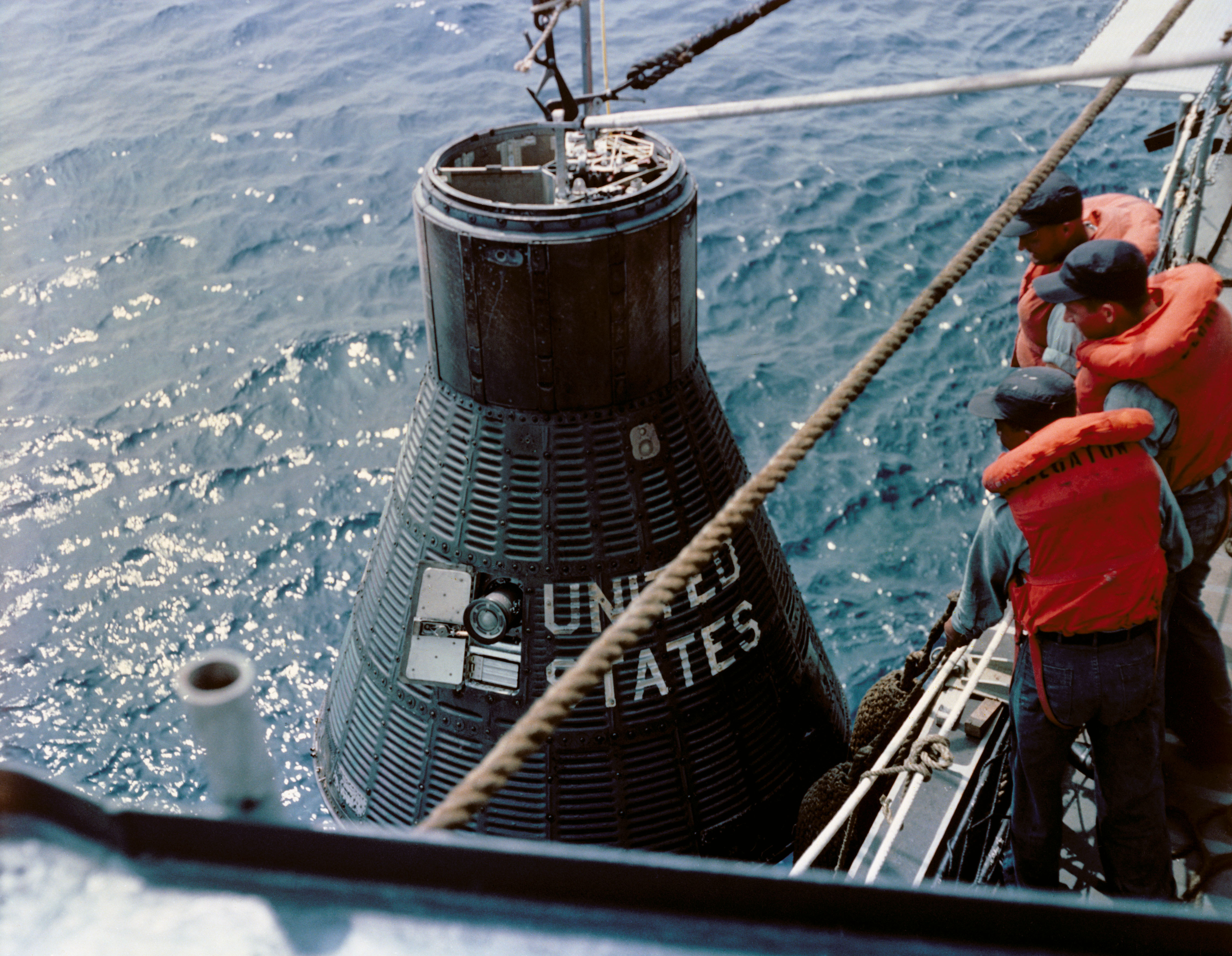 Recovery of the Mercury-Atlas 4 capsule by USS Decatur (DD-936).